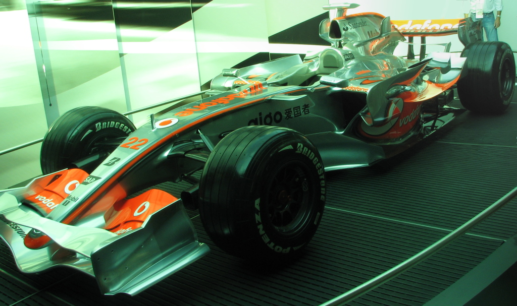 The F1 bolide of Mercedes Benz., Hungaroring Budapest Hungary